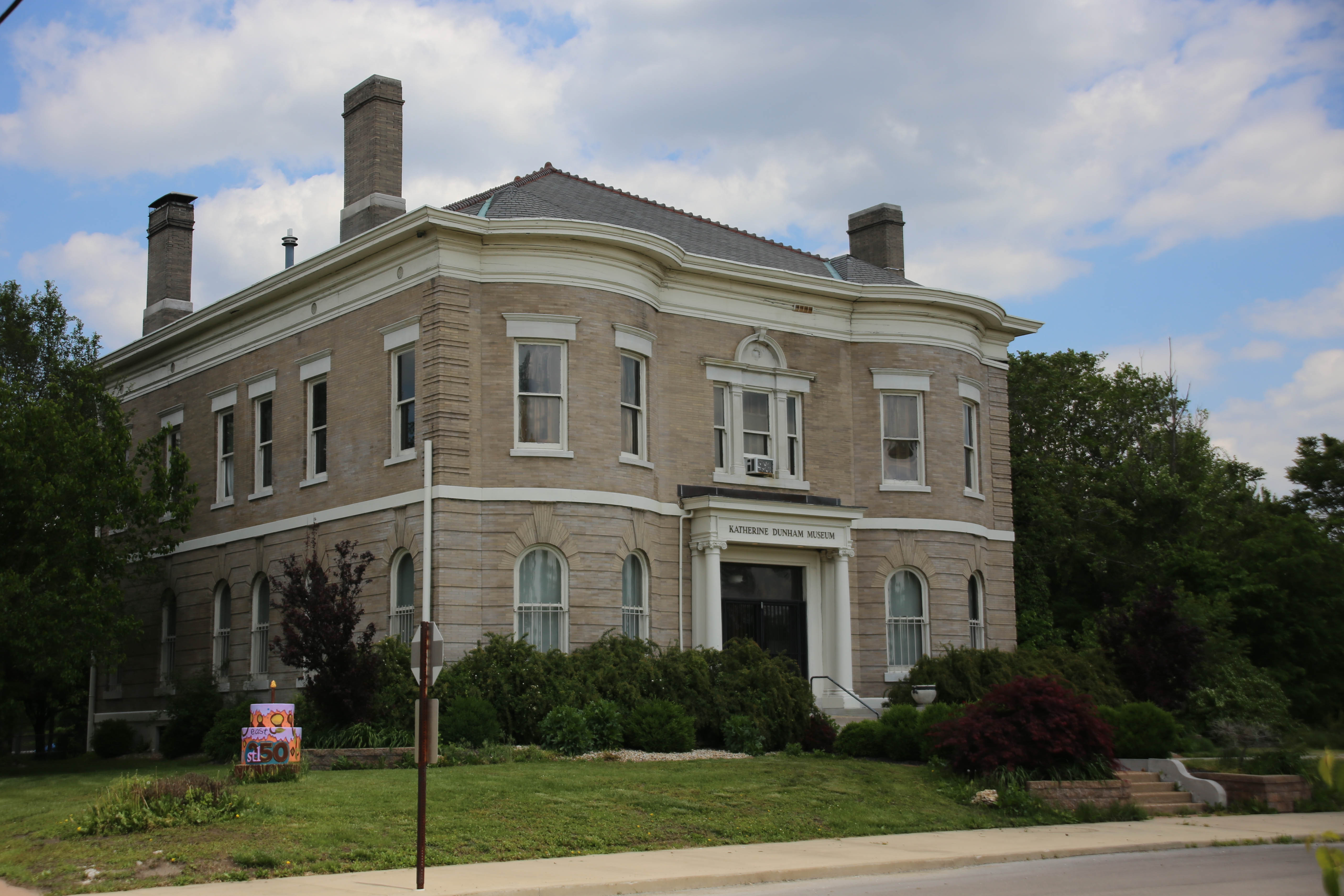 The Katherine Dunham Museum in East St. Louis, Illinois. The museum is part of the Pennsylvania Avenue Historic District, which is listed on the National Register of Historic Places.